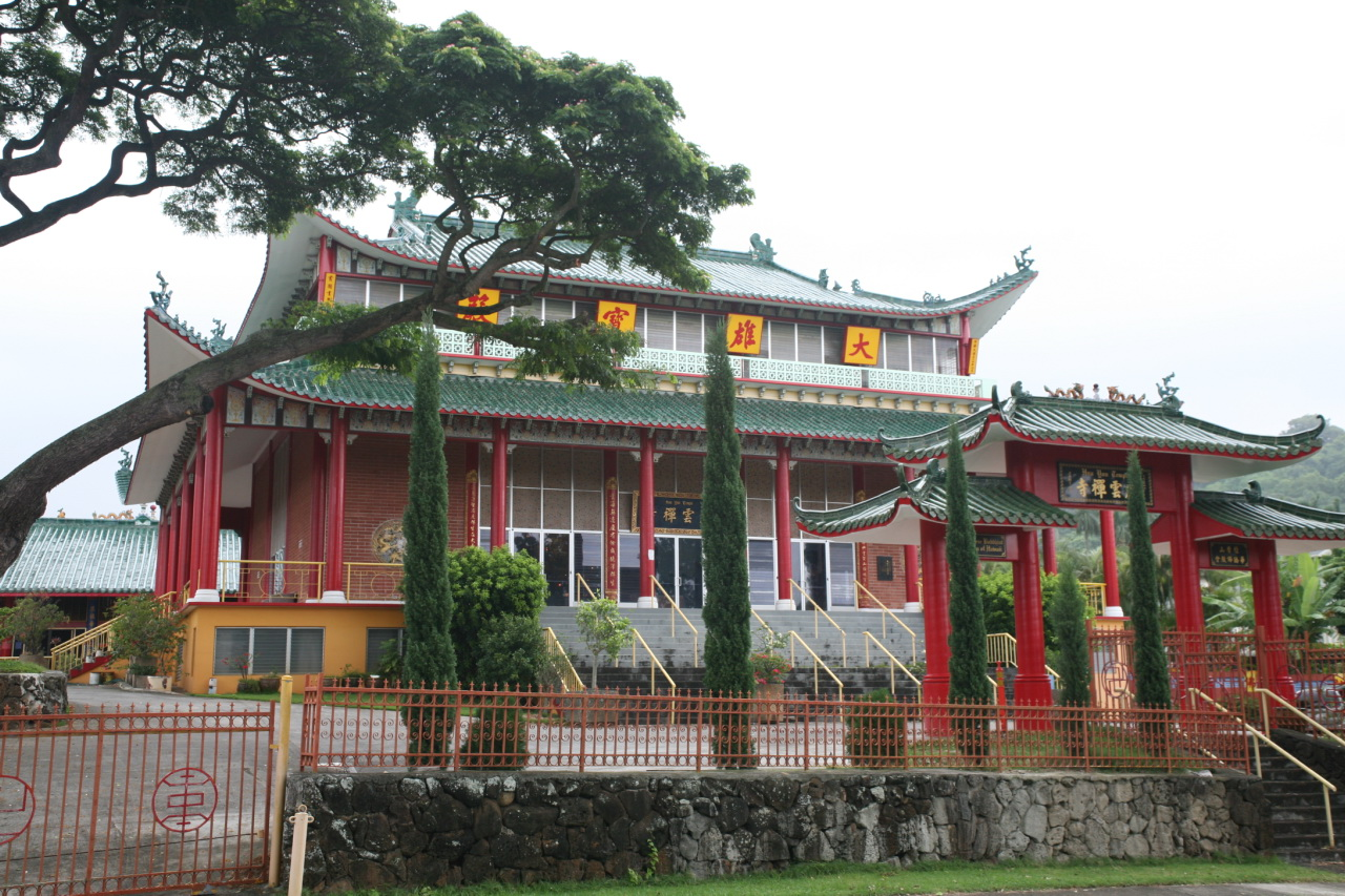 Hsu Yun temple in Honolulu, Hawaii. The temple was founded by Grandmaster Jy Din Shakya in 1956. The Zen (Chan) Buddhist Order of Hsu Yun (ZBOHY) was founded on November 8, 1997 by Grandmaster Jy Din Shakya, Abbot and founder of Hsu Yun Temple in Honolulu. The event coincided with an ordination ceremony in which he named Chuan Zhi Shakya after himself, a rare honor bestowed to a disciple.